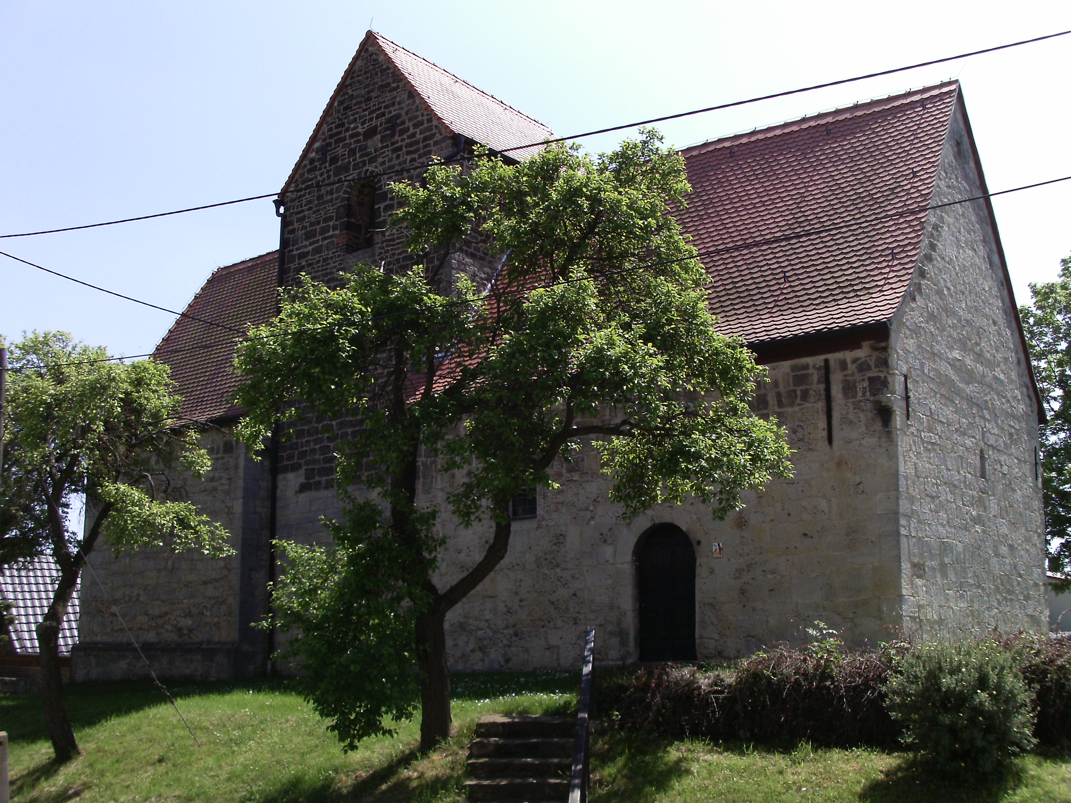 Obschütz church (Weißenfels, district of Burgenlandkreis, Saxony-Anhalt)